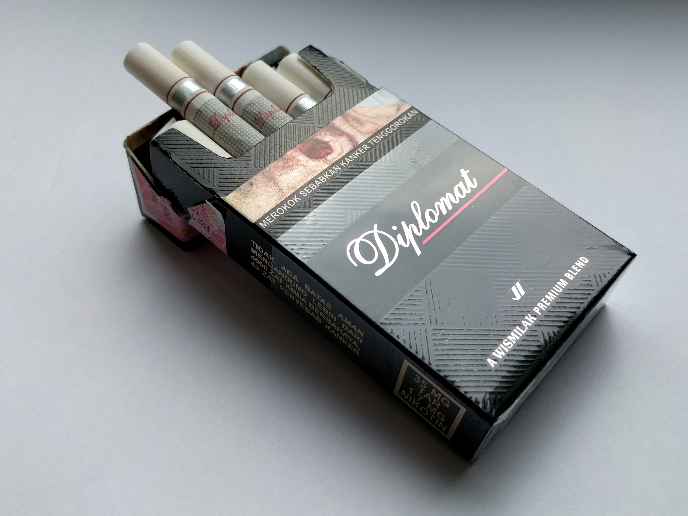 Open pack of Wismilak Diplomat "kretek" cigarettes.